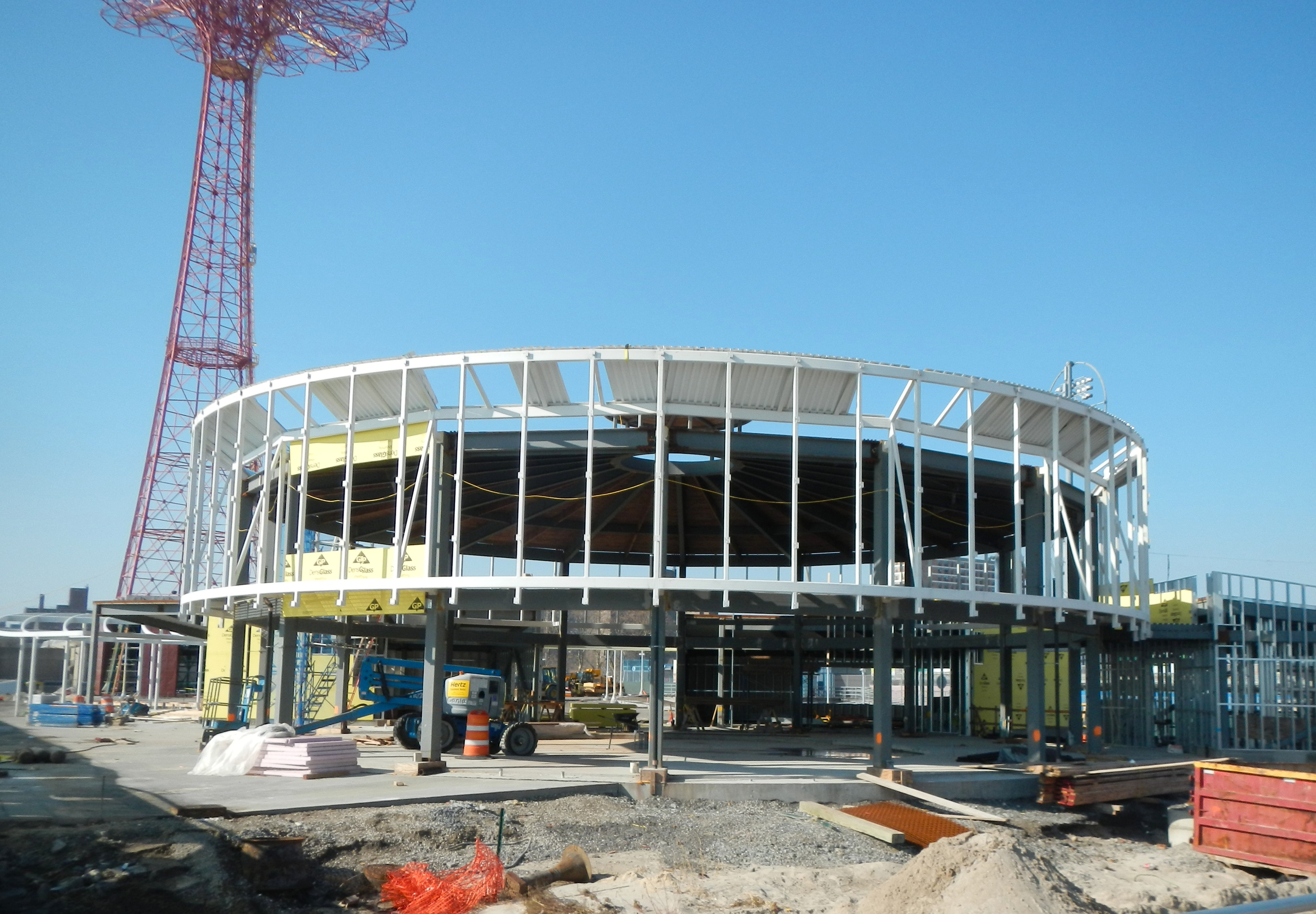 Looking west at carousel under construction on site of former Steeplechase Park on a sunny midday. Parachute tower in background left.